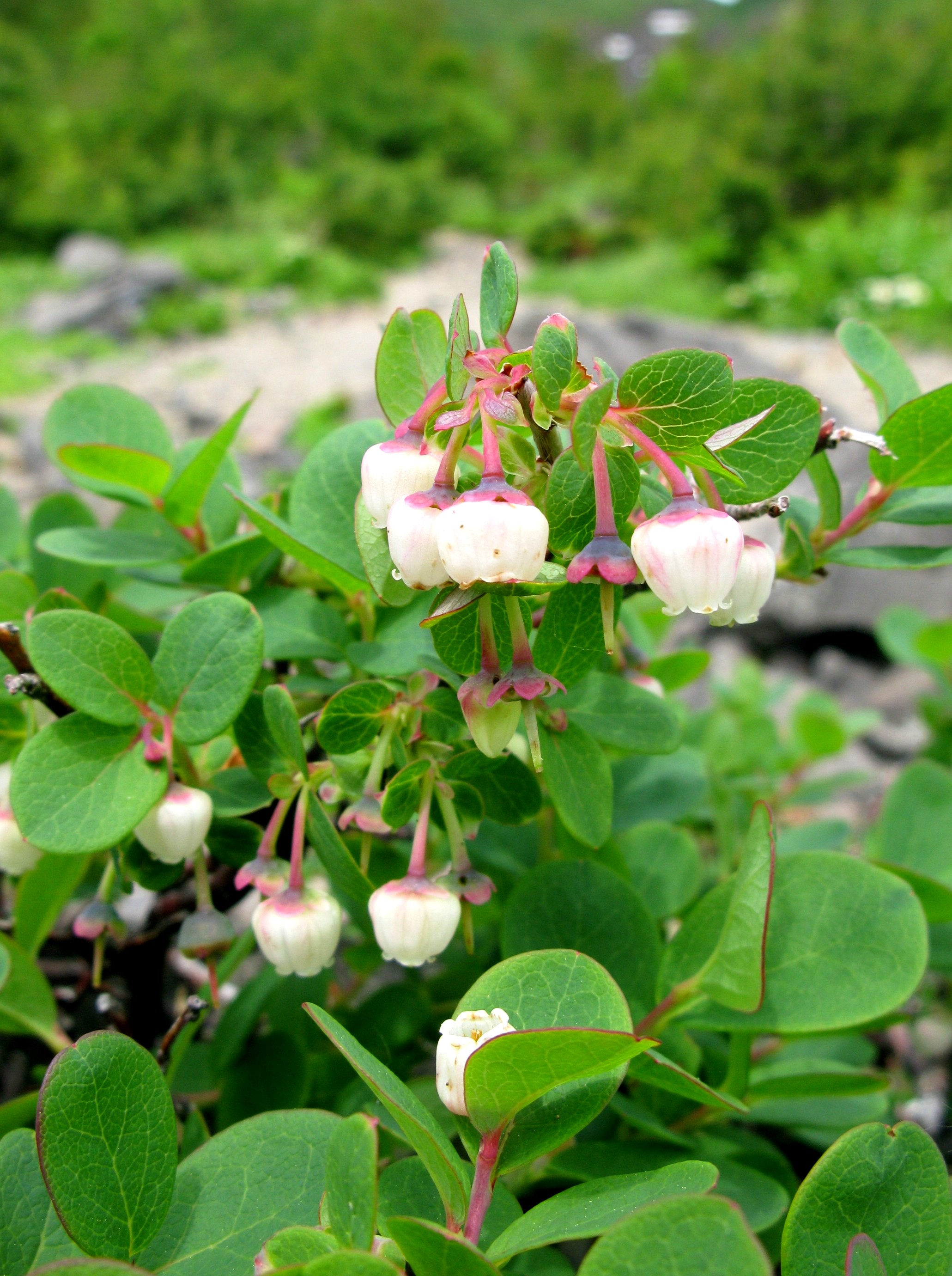 Vaccinium uliginosum ,Mt. Higashi-Azumayama, Fukushima pref., Japan